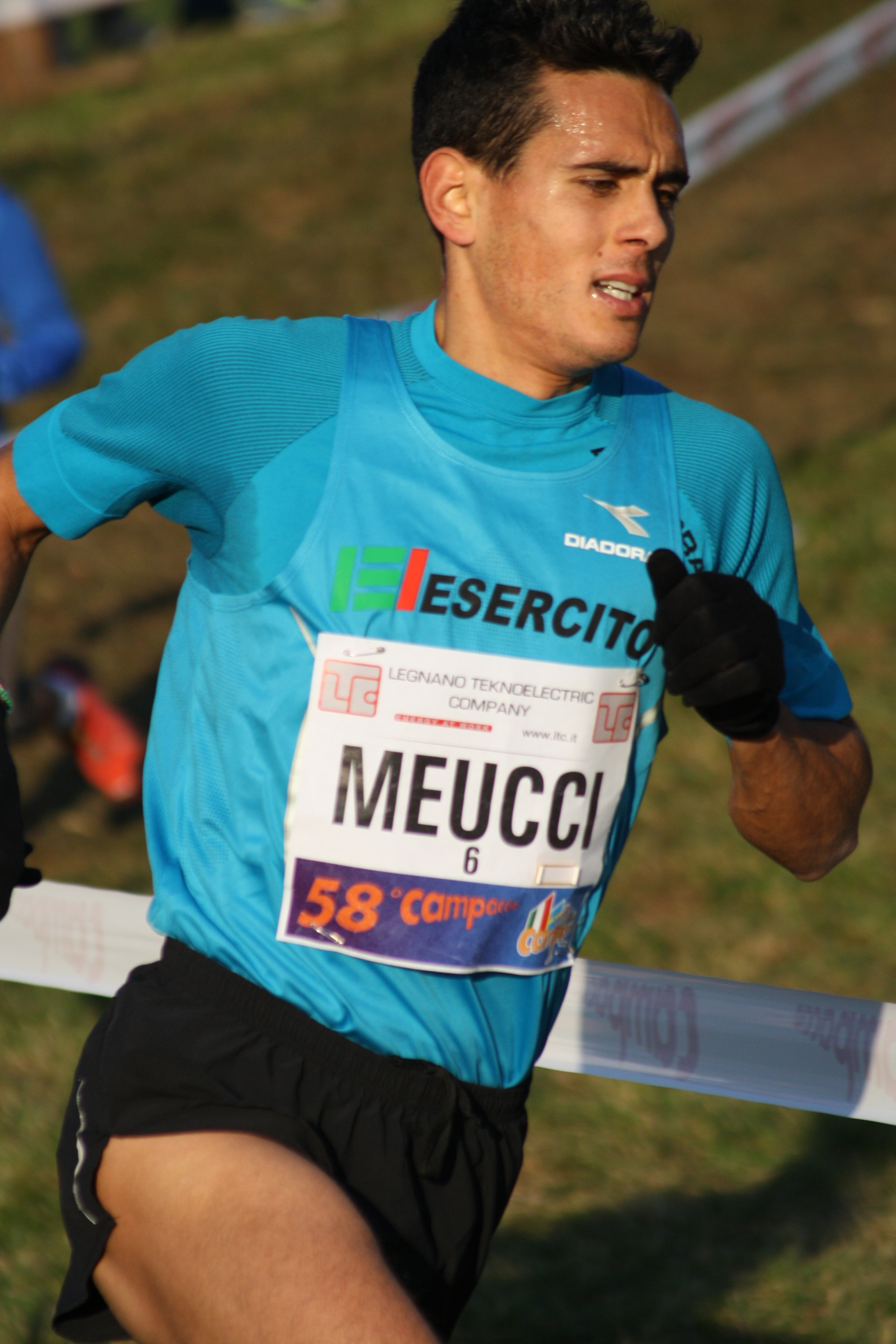 The Italian athlete Daniele Meucci during the 58th edition on the Campaccio.